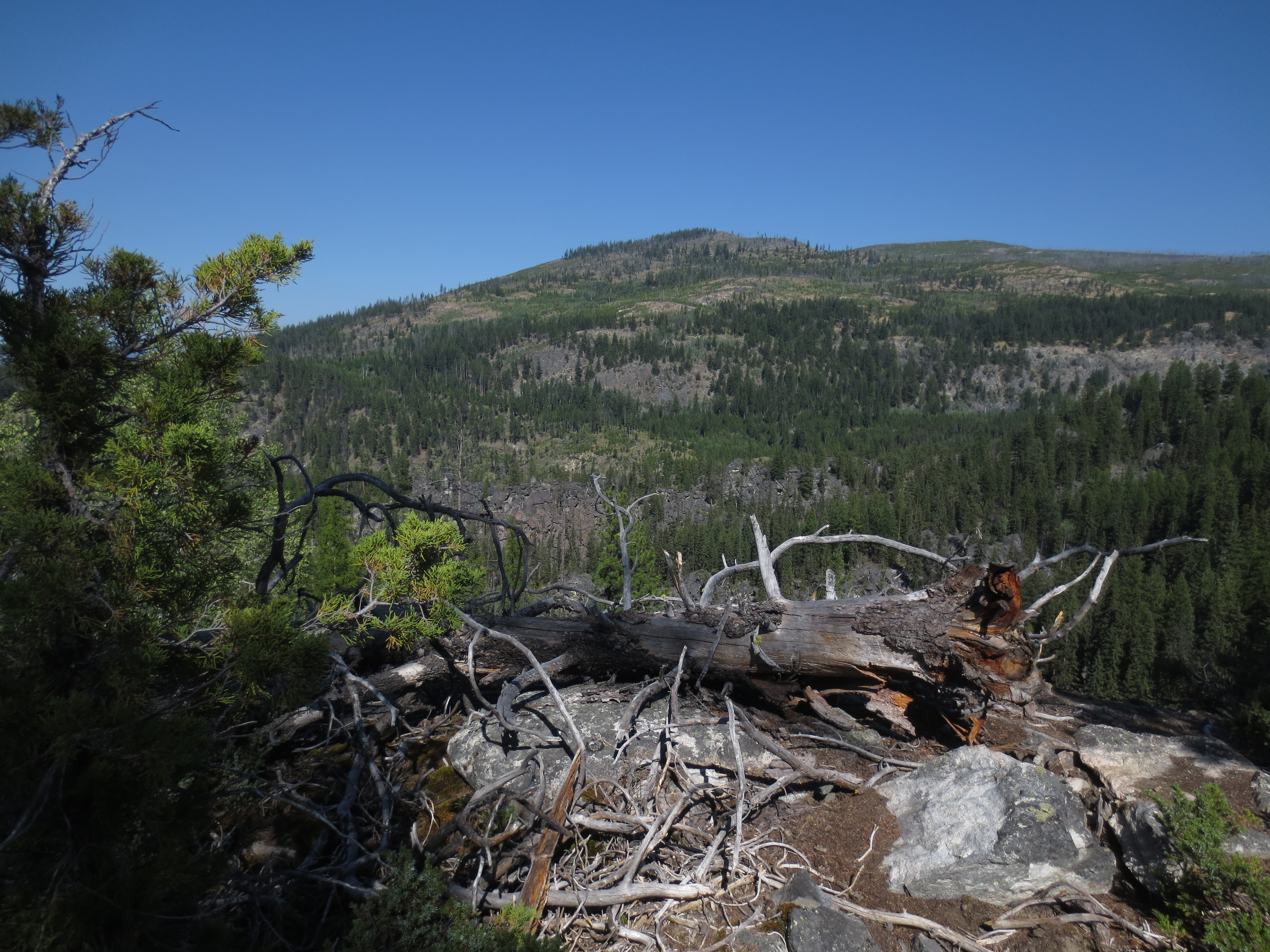 Looking Across Bellevue Canyon from the Boulderfields